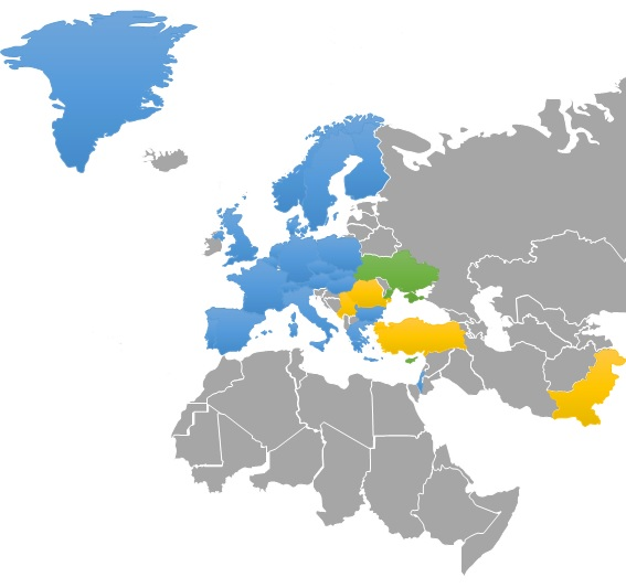 Map of the current state of CERN a. full members (in blue), b. associate members and candidate for accession (yellow), c. accession in progress (green)